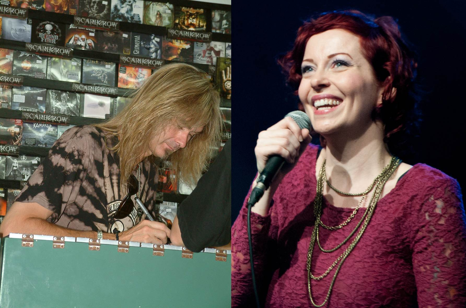 Arjen Anthony Lucassen (left) and Anneke van Giersbergen (right); together they formed The Gentle Storm in 2014.